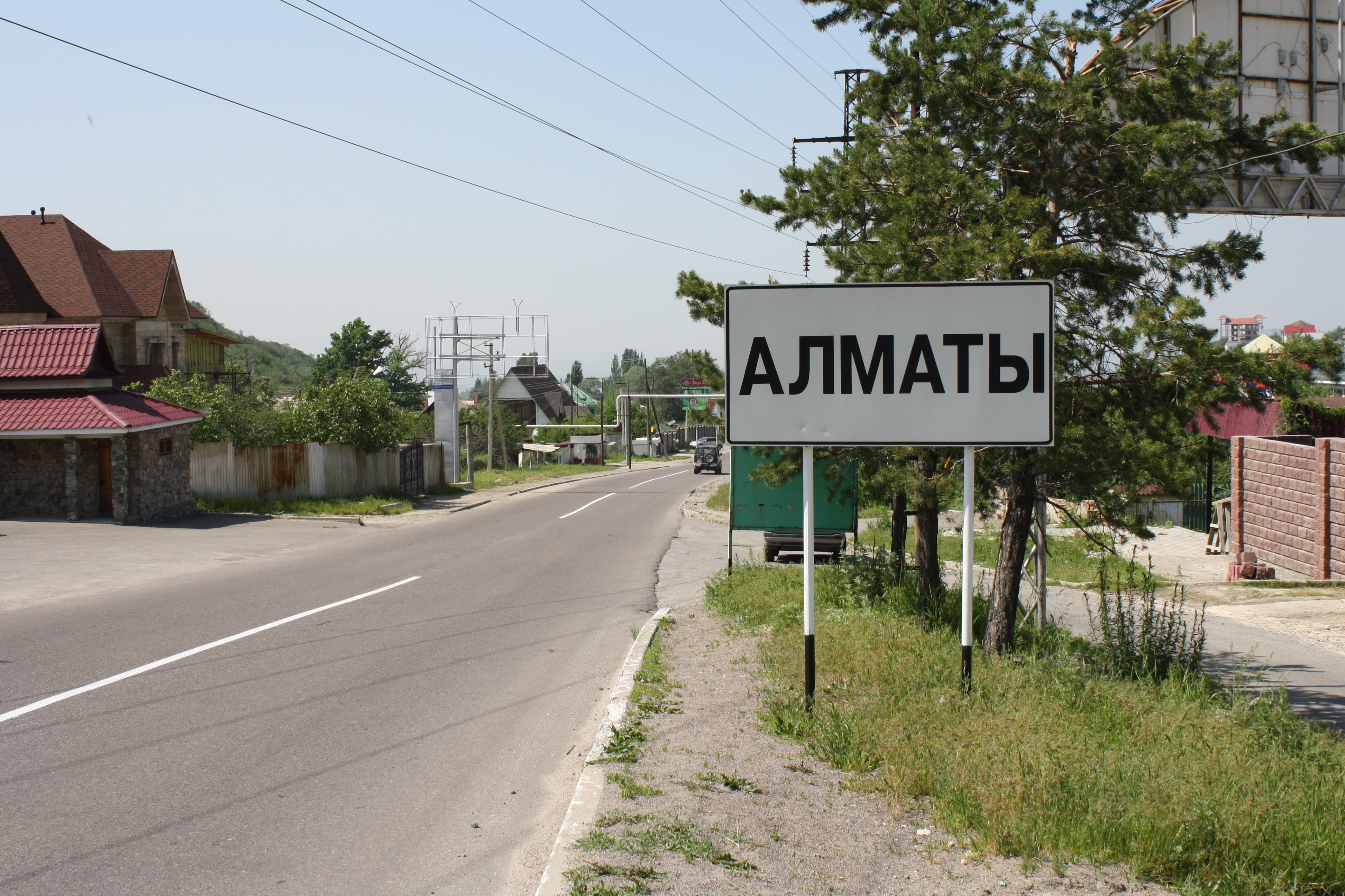 The road sign at the entrance to Almaty city.